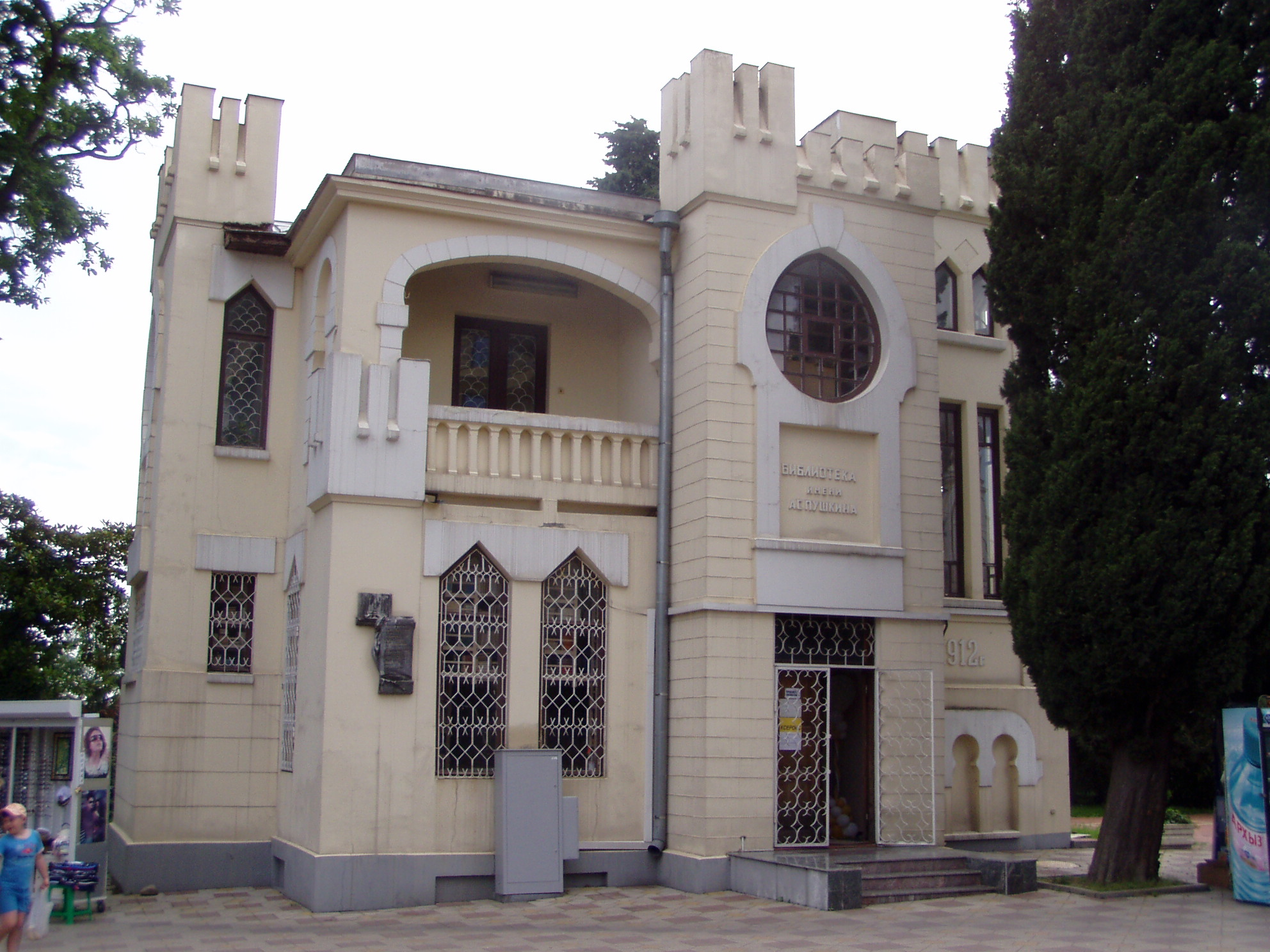 Pushkin library in Sochi, Russia